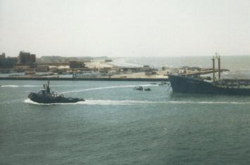 Port Said in may 1982